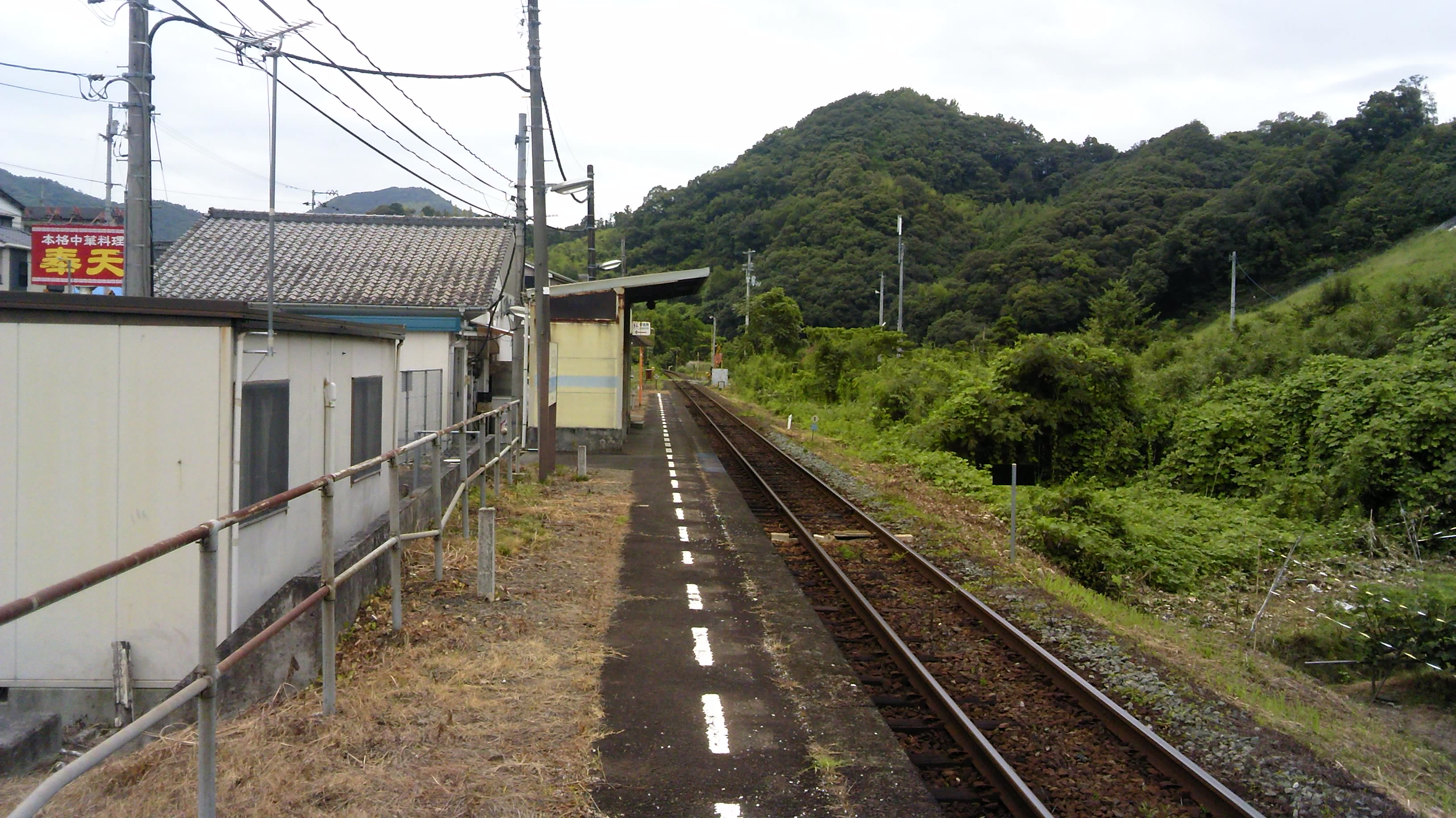 Takamitsu Station platform, facing towards Iyo-Yoshida